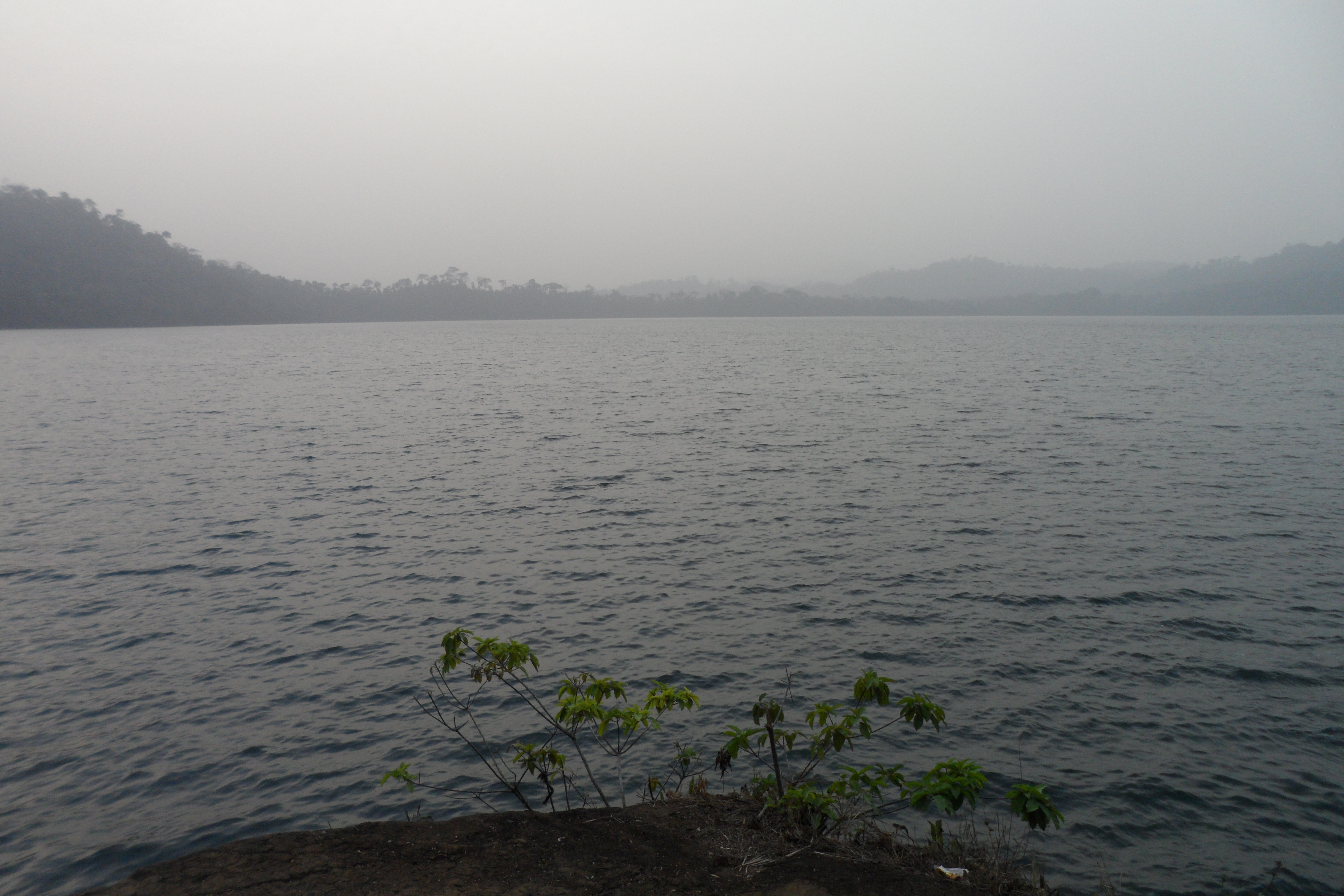 The beautiful Lake Barombi in Kumba